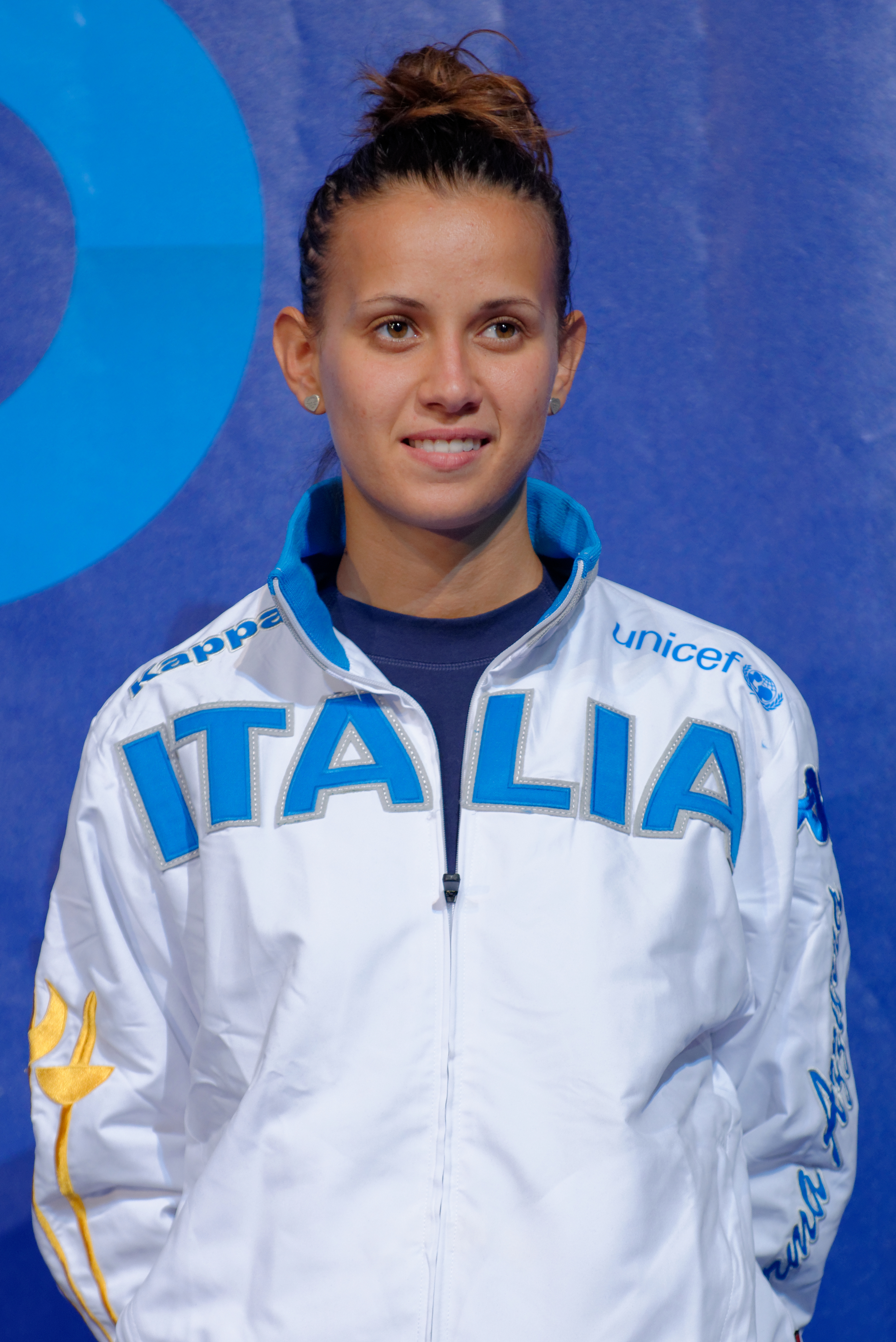 Italy's Irene Vecchi stands on the podium of the women's sabre event of the 2013 World Fencing Championships 2013 at Syma Hall in Budapest on 9 August 2013.